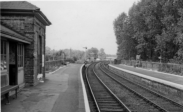 Bartlow Station, Near to Bartlow, Cambridgeshire, Great Britain. View westwards, towards Cambridge; Cambridge - Haverhill - Sudbury - Marks Tey secondary line, junction of branch from Saffron Walden and Audley End -- coming in to separate platform on left in photograph. Audley End branch closed 7/9/64 (Goods, 28/12/64), main line 6/3/67 -- to Sudbury only (Sudbury - Marks Tey remains open).